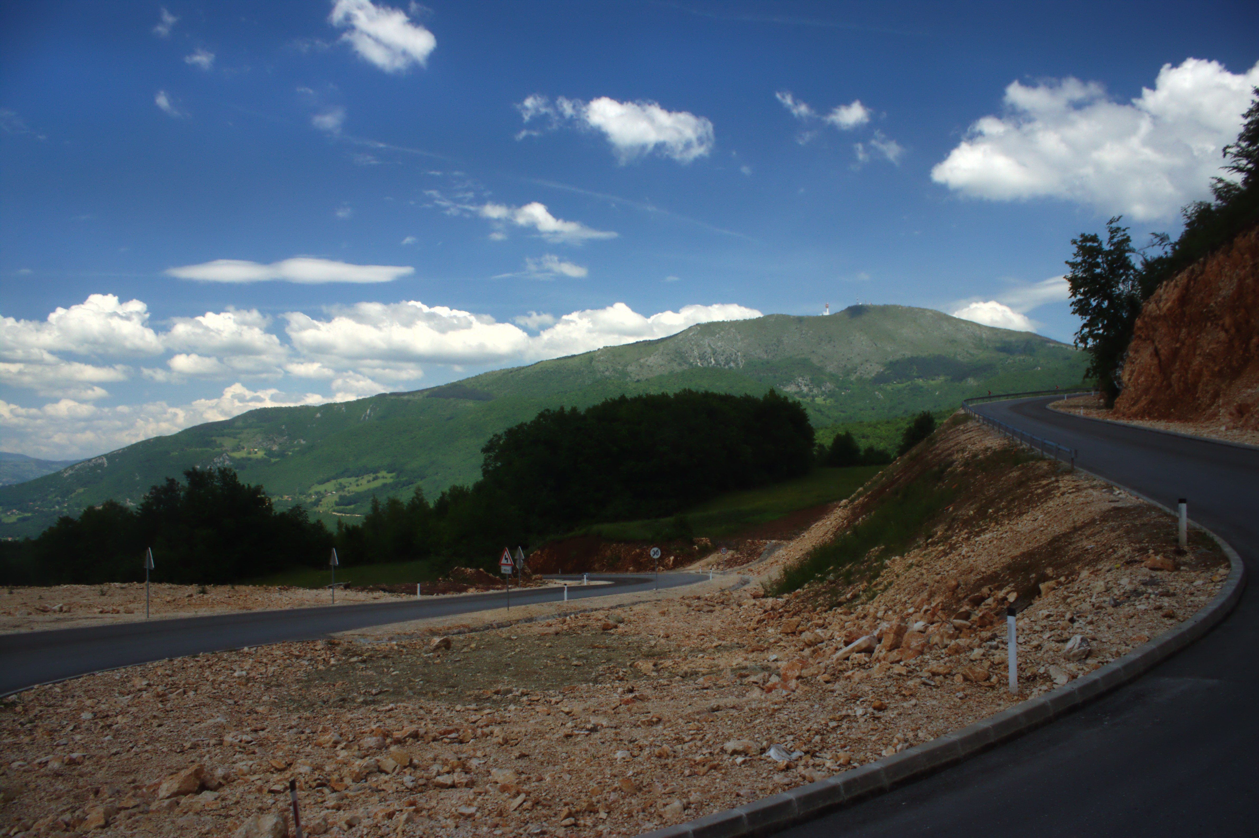 Road and countryside close to Istočno Sarajevo, RS, BiH